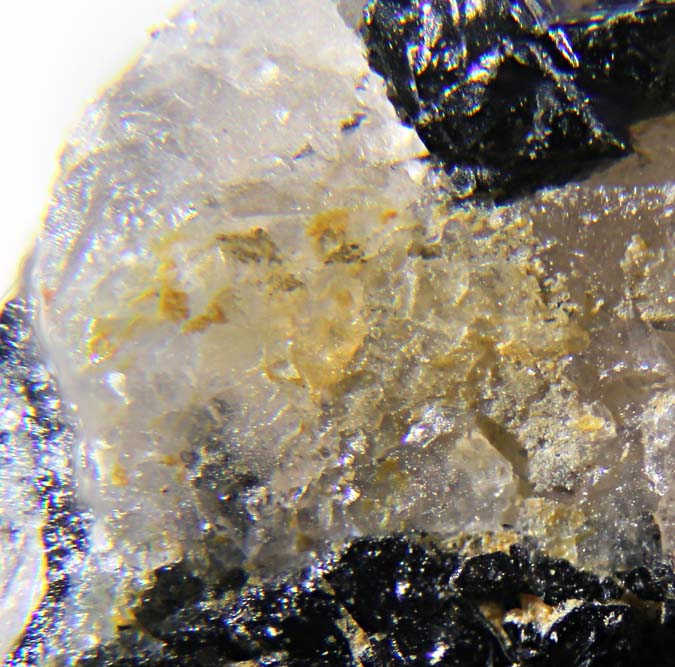 Yellow crystal aggregates of tusionite, a very rare Mn-Sn borate, from one of the only three known localities worldwide: Řečice, Vysočina Region, Moravia, Czech Republic.